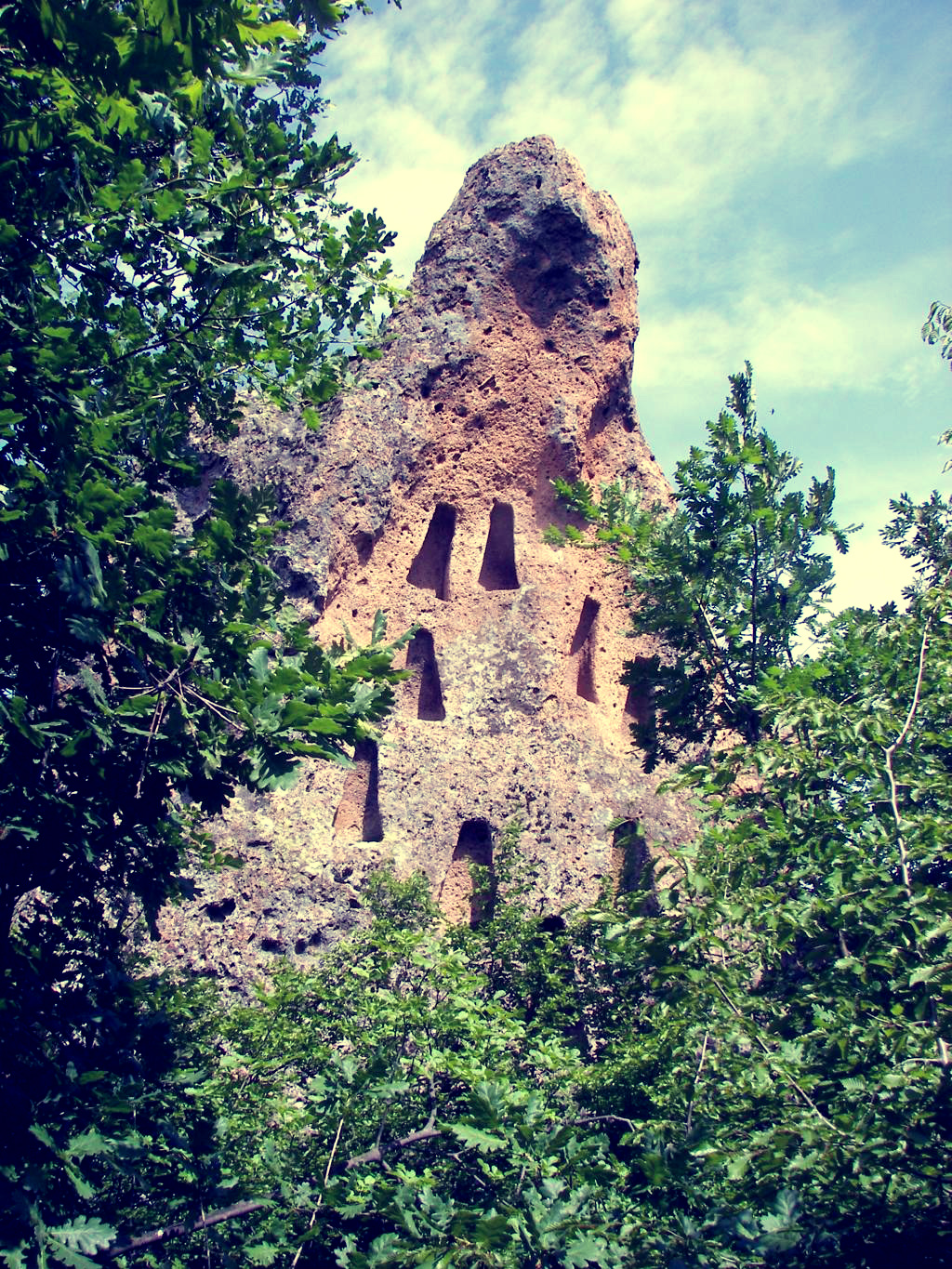 Harman Kaya sanctuary BG